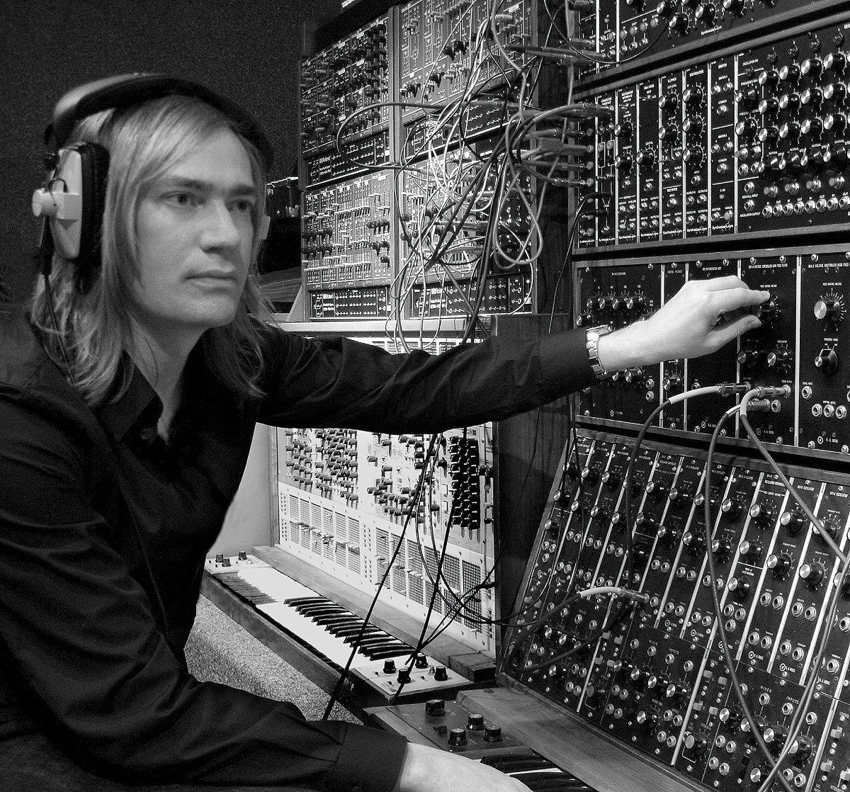 Musician Benge with Roland System-100M (upper left) and Moog (right) synthesizers